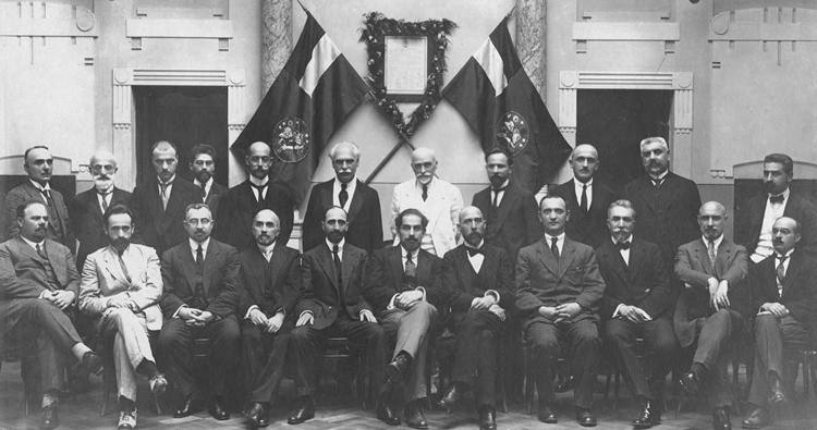 Members of the borad of the State Bank of Georgia at its launch event. Photograph preserved at the National Archives of Georgia.